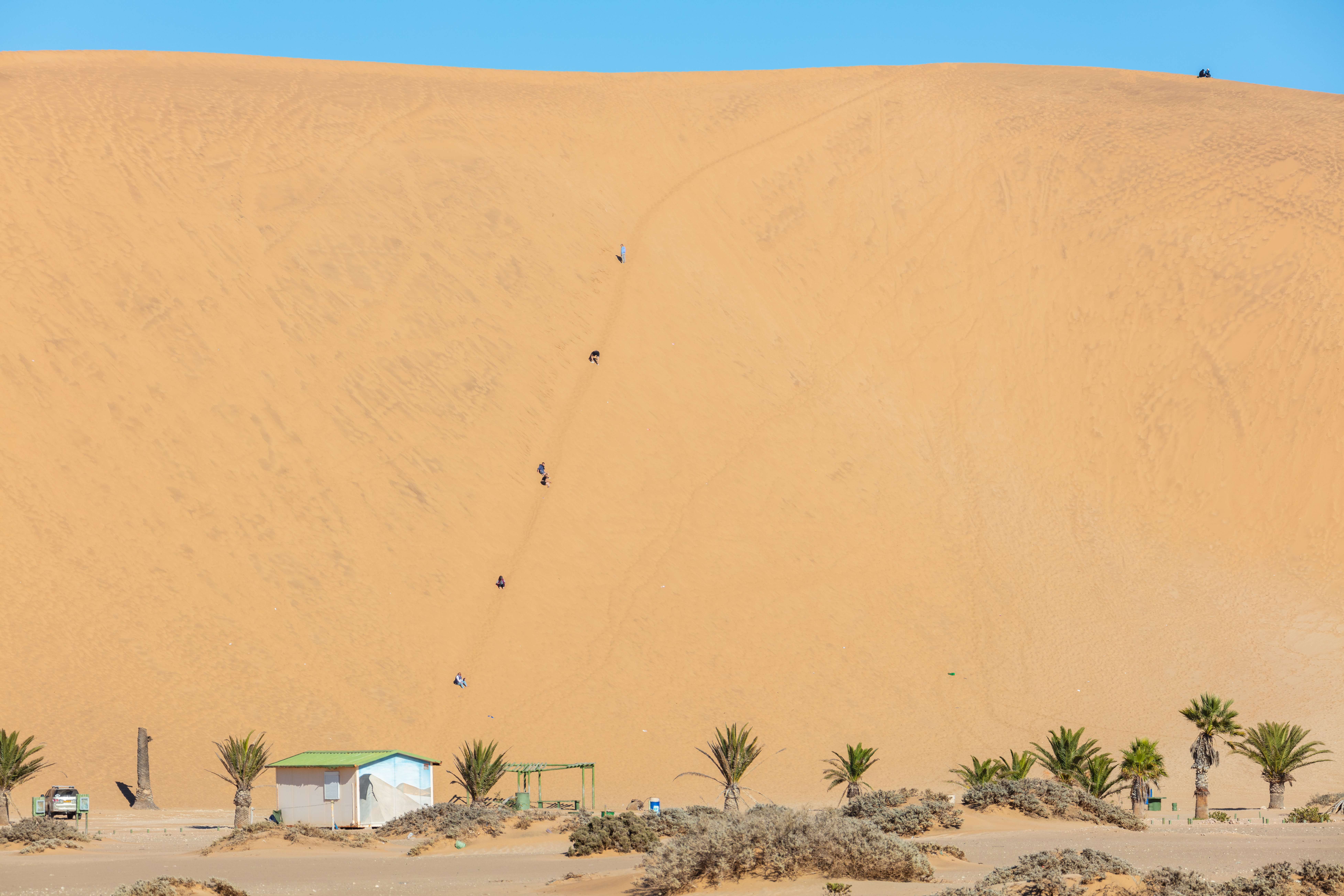 Dune 7, Walvis Bay, Namibia